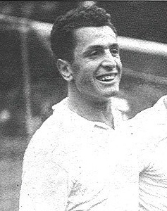 Mustapha Zitouni with the FLN color before the independence of Algeria